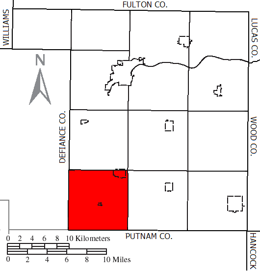 Made by the US Census and modified by myself